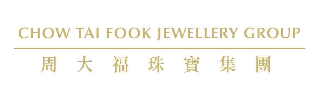 Chow Tai Fook Jewellery Group logo